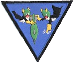 Emblem of the 477th Bombardment Squadron (World War II)